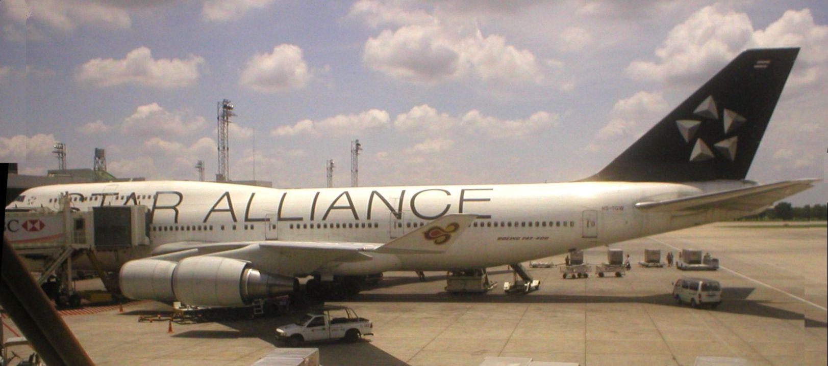 747 with the Star Alliance design (Thai Airways) in Bangkok Airport